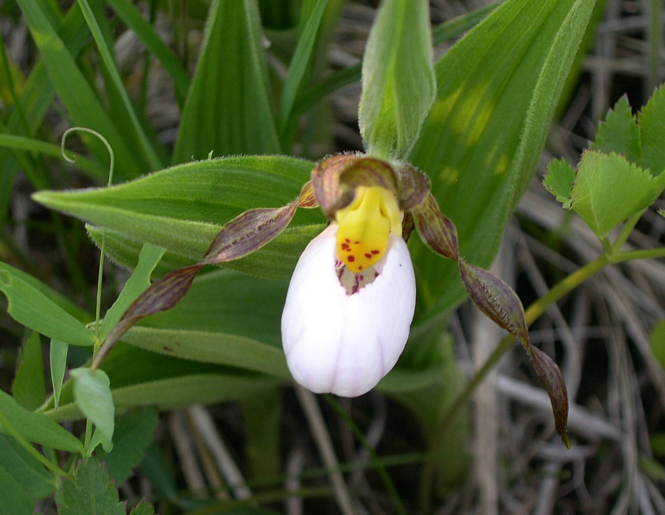 White Lady's Slipper (Cypripedium candidum. Illinois, USA.)